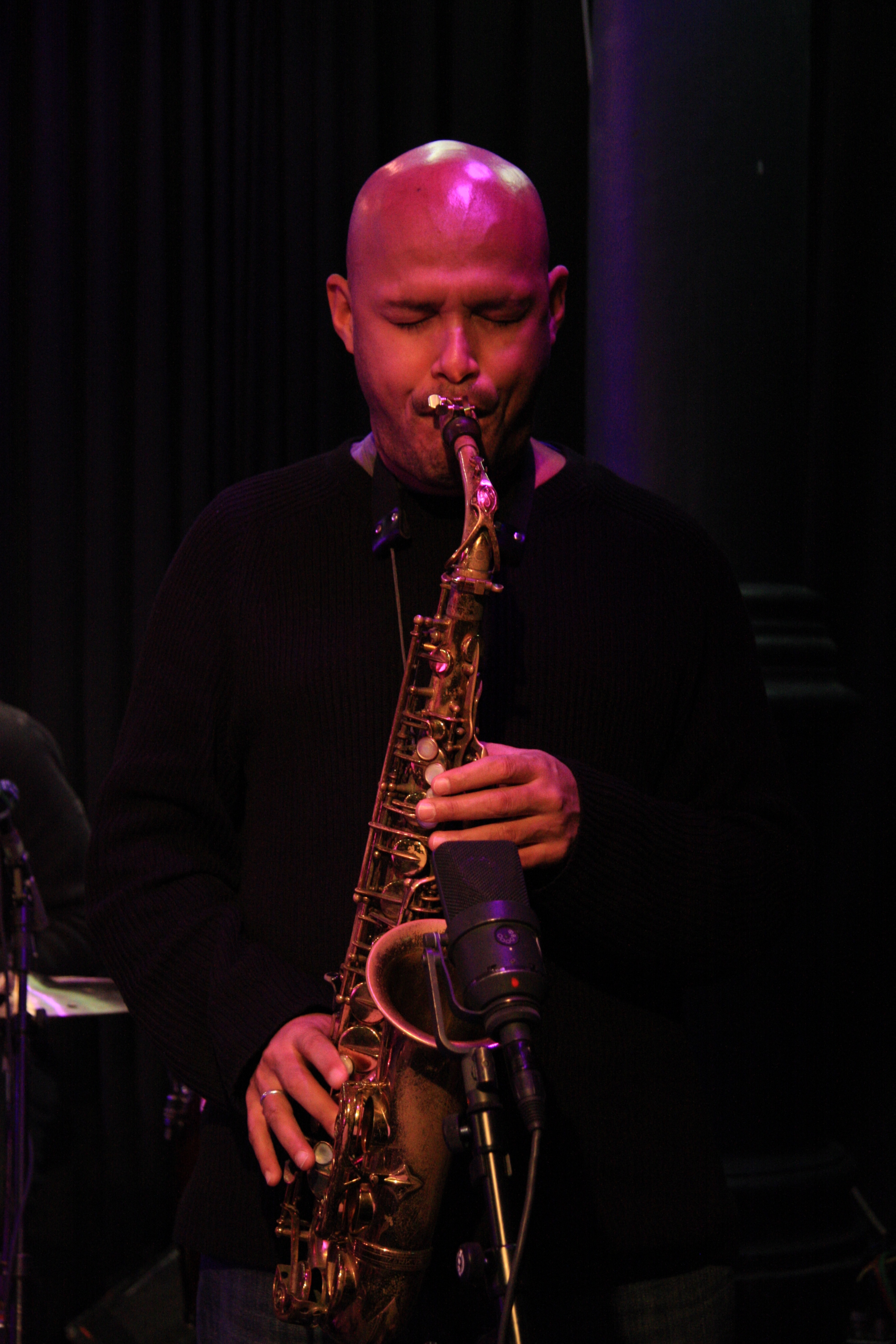 Miguel Zenon performing at a workshop in Munich (Germany) with the band San Francisco Jazz Collective